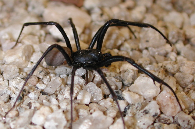 Plectreuridae, unknown species, male. From Baja California.